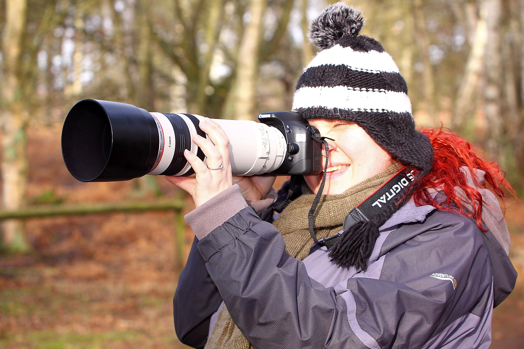 A photographer with a Canon digital camera.